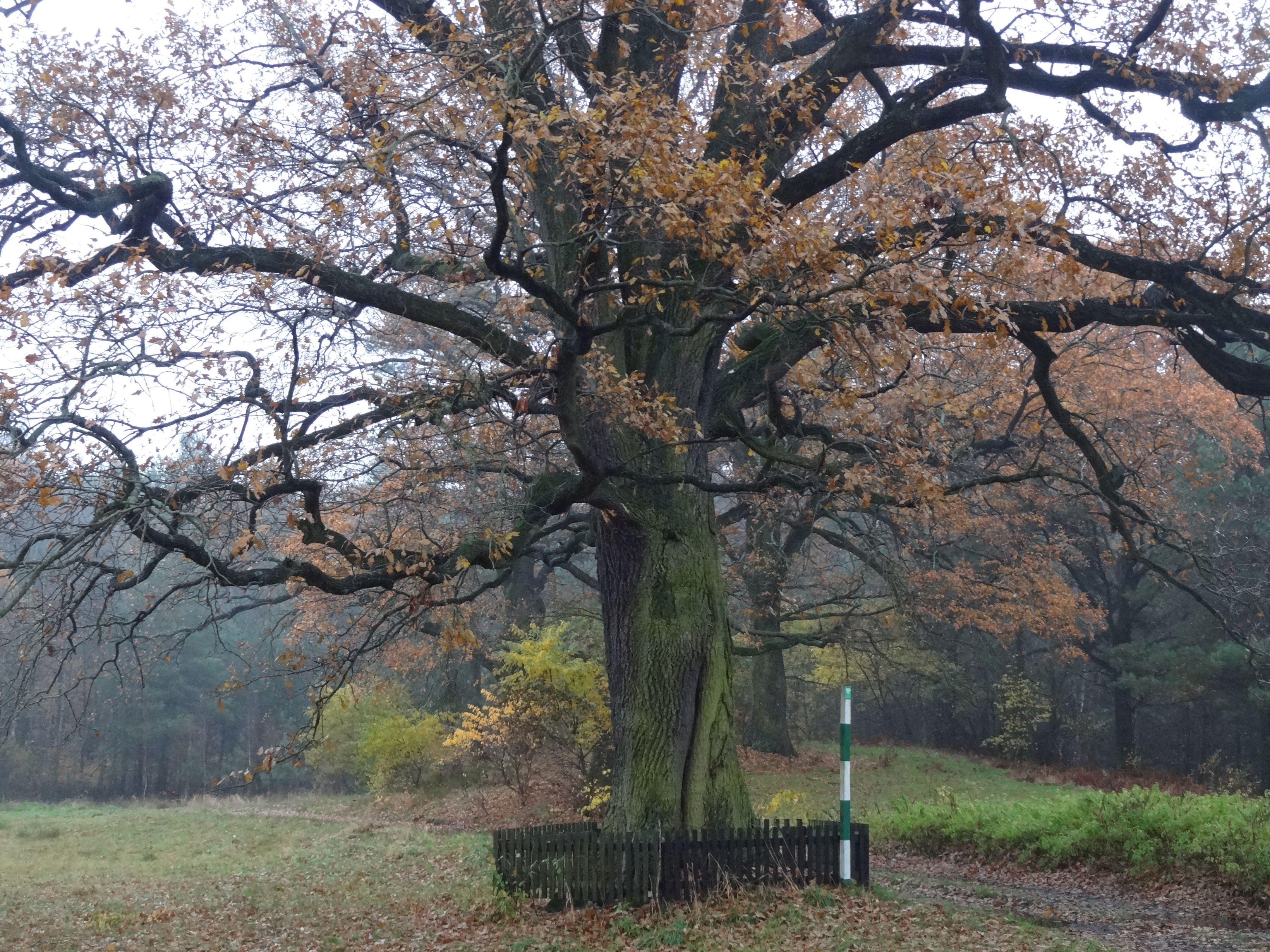 Pomnik przyrody Tworóg Wesoła dąb